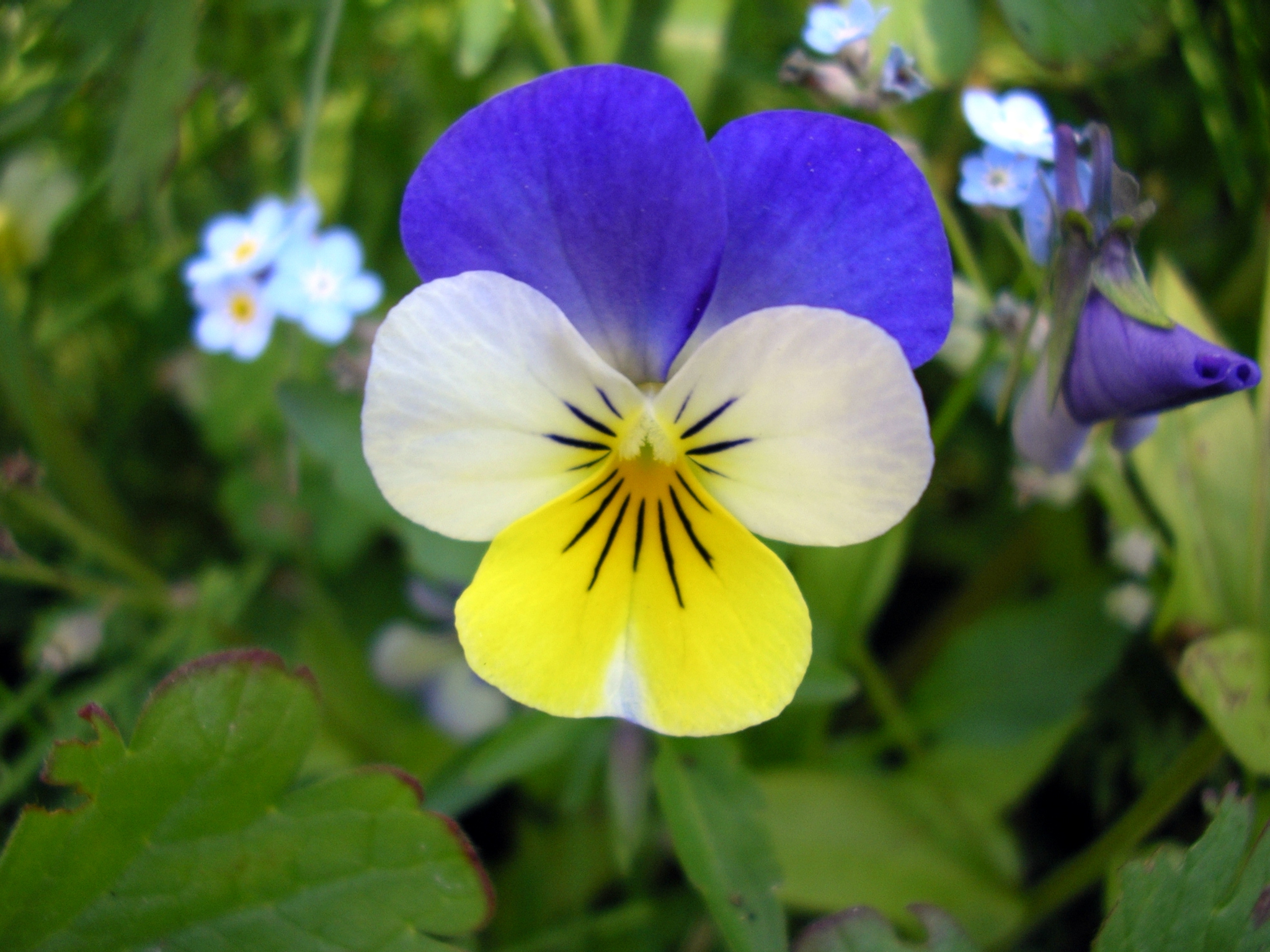 Viola tricolor